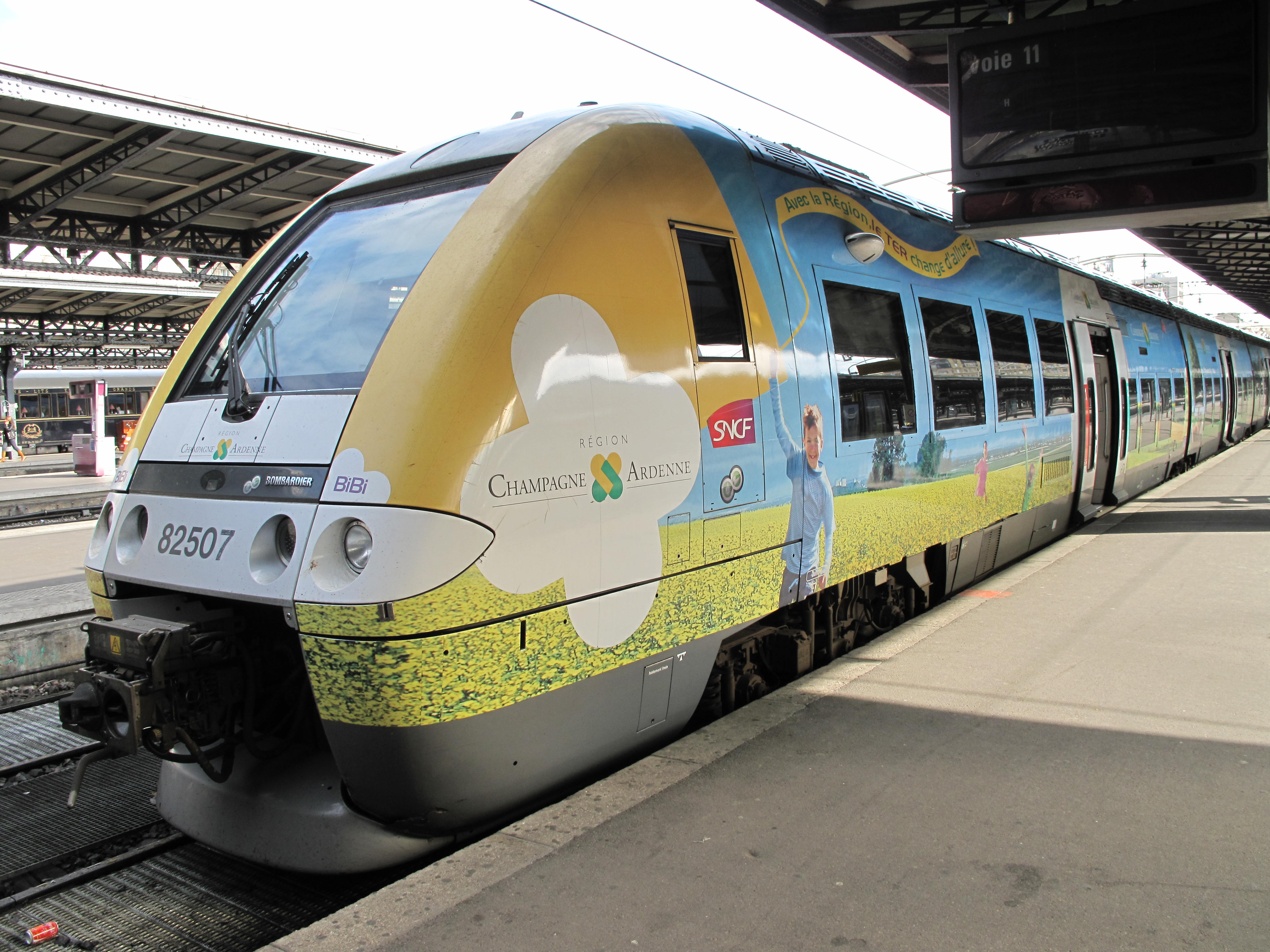 BiBi (Bimode : diesel and electric, Bicourant : 1.5 kV DC and 25 kV 50 Hz AC) in Gare de l'Est, Paris.